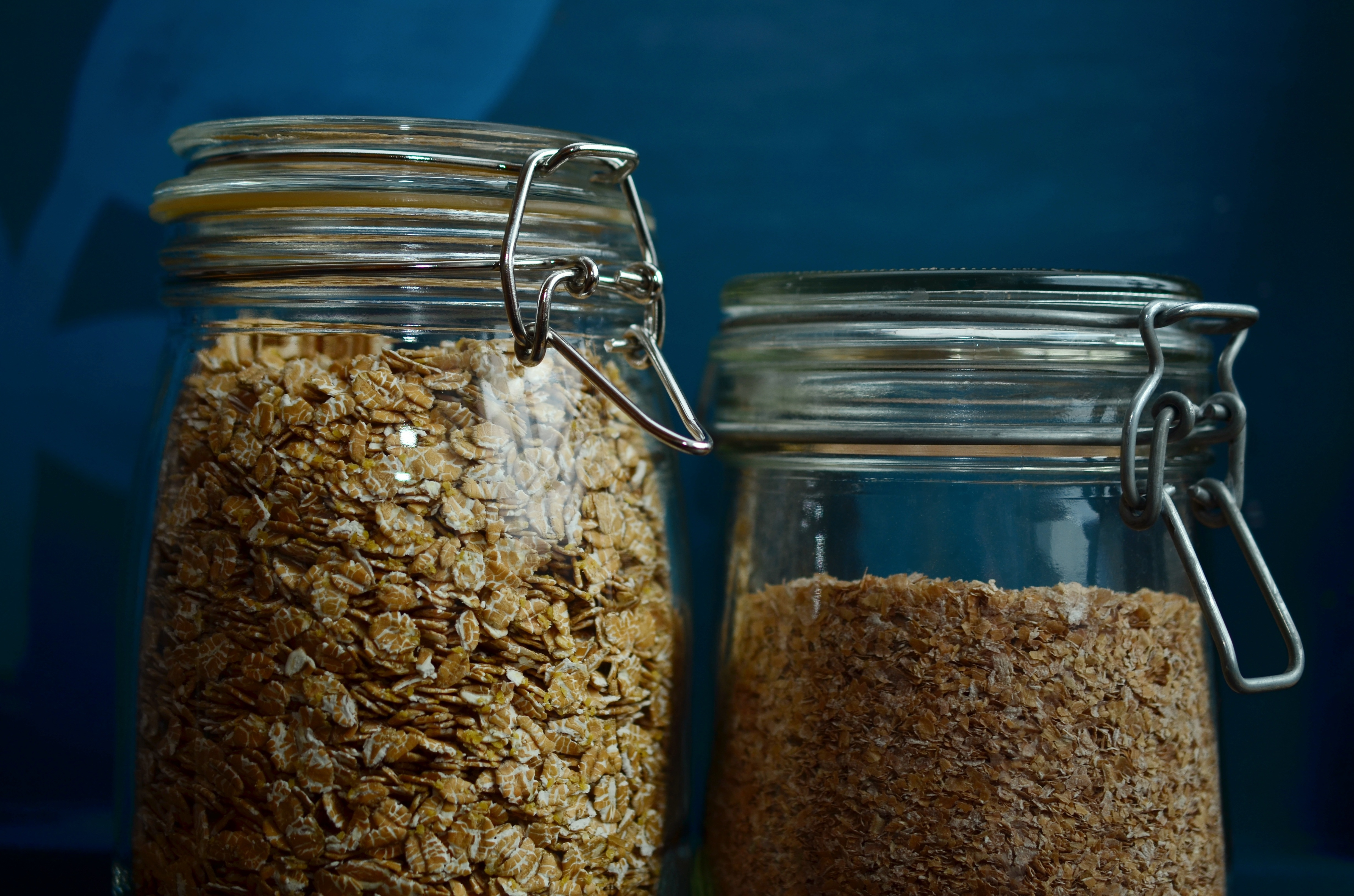 cereals spelt flakes oatmeal jar